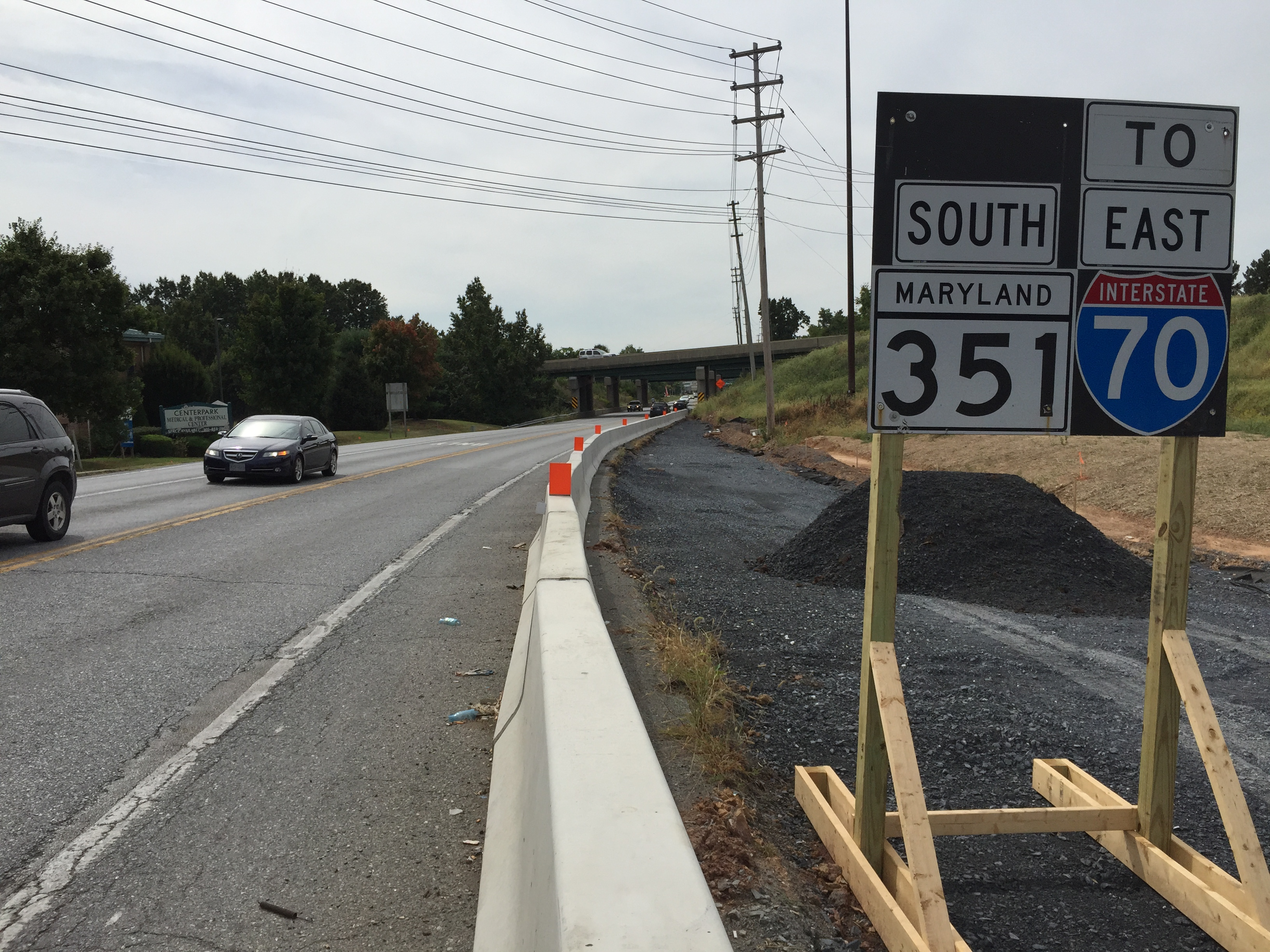 View south along Maryland State Route 351 (Ballenger Creek Pike) at Solarex Court in Frederick, Frederick County, Maryland